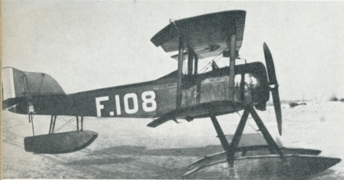 Sopwith Baby in use with Norway's Marinens flyvåpen. F.108 was taken into use in 1918 and written off in 1920.